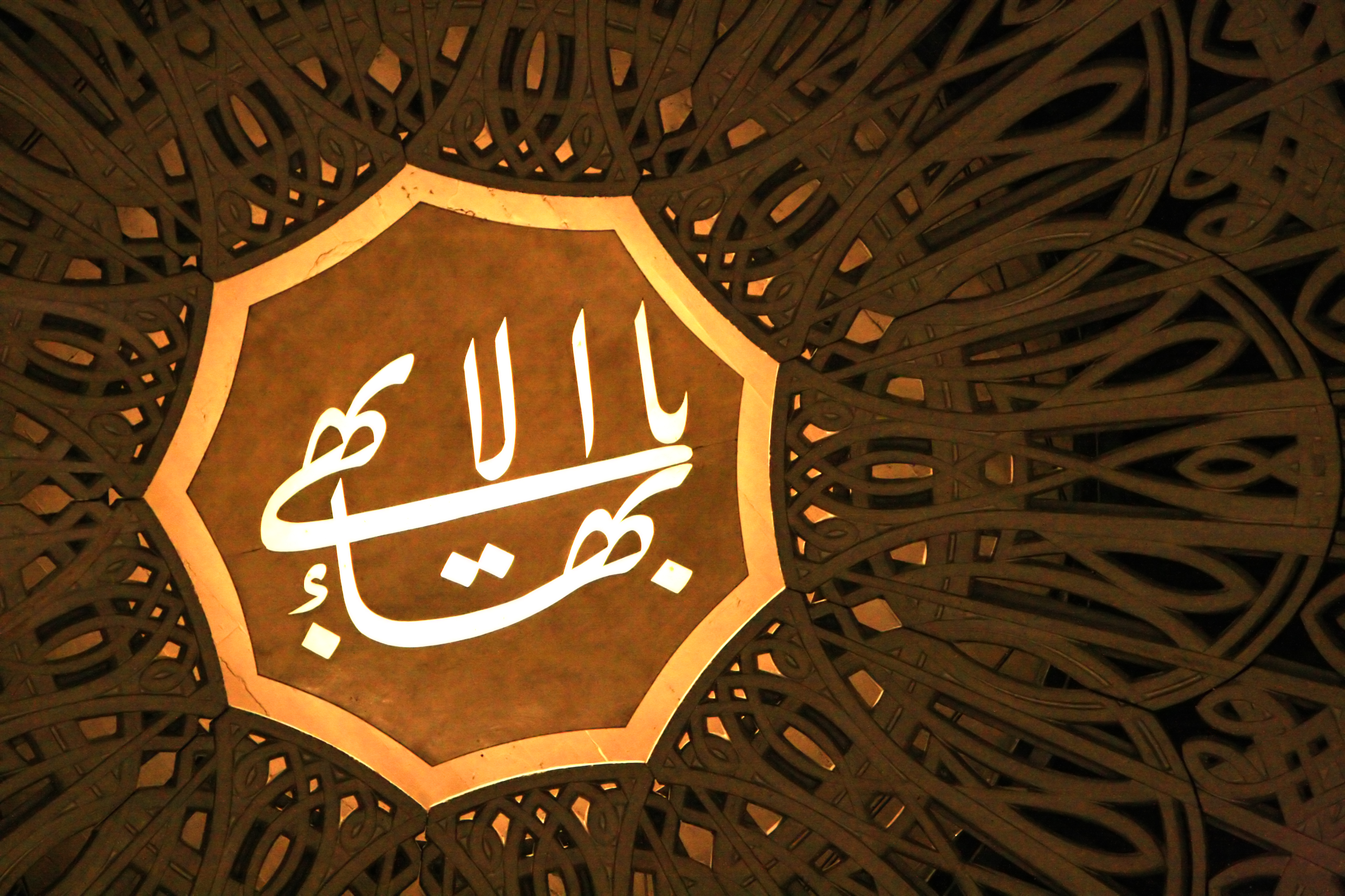 Photograph of the Greatest Name at the top of the interior of the Baha'i House of Worship in Wilmette, Illinois.